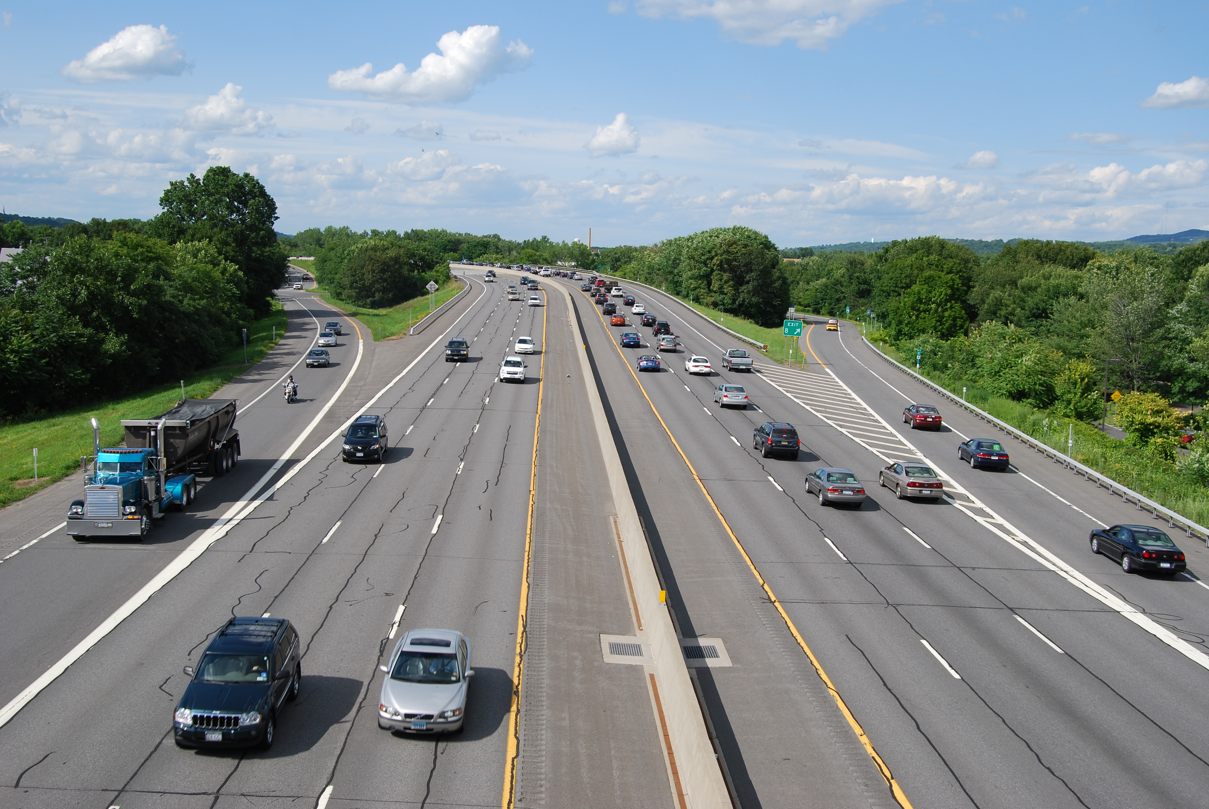 North end of Interstate 787, an auxiliary Interstate Highway that connects the cities of Albany and Troy in the US state of New York. The image is taken from the Congress Street Bridge, and overpass. It clearly shows the diamond interchange of Exit 8.